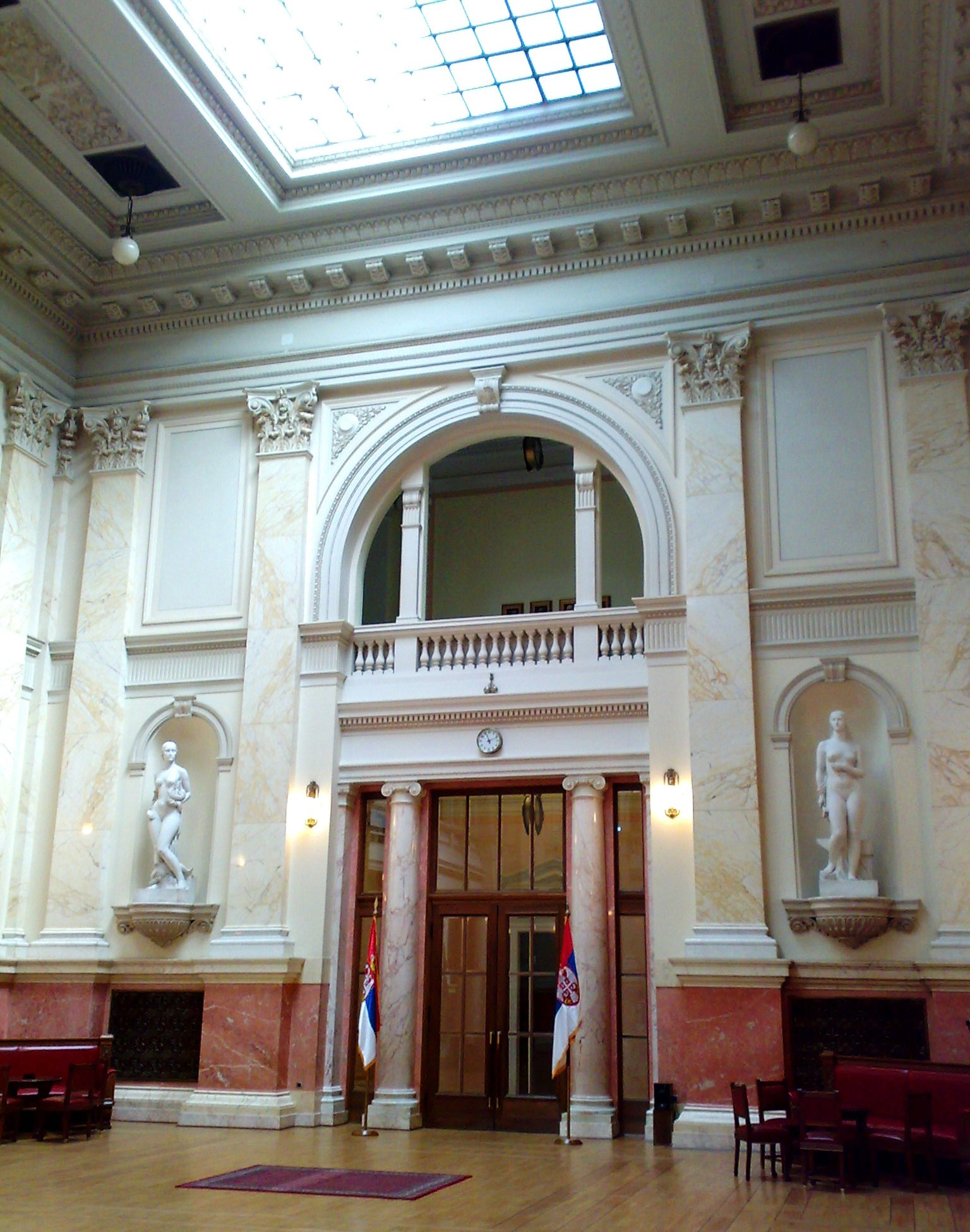 Interiors of the parliament of Serbia, located in central Beograd.